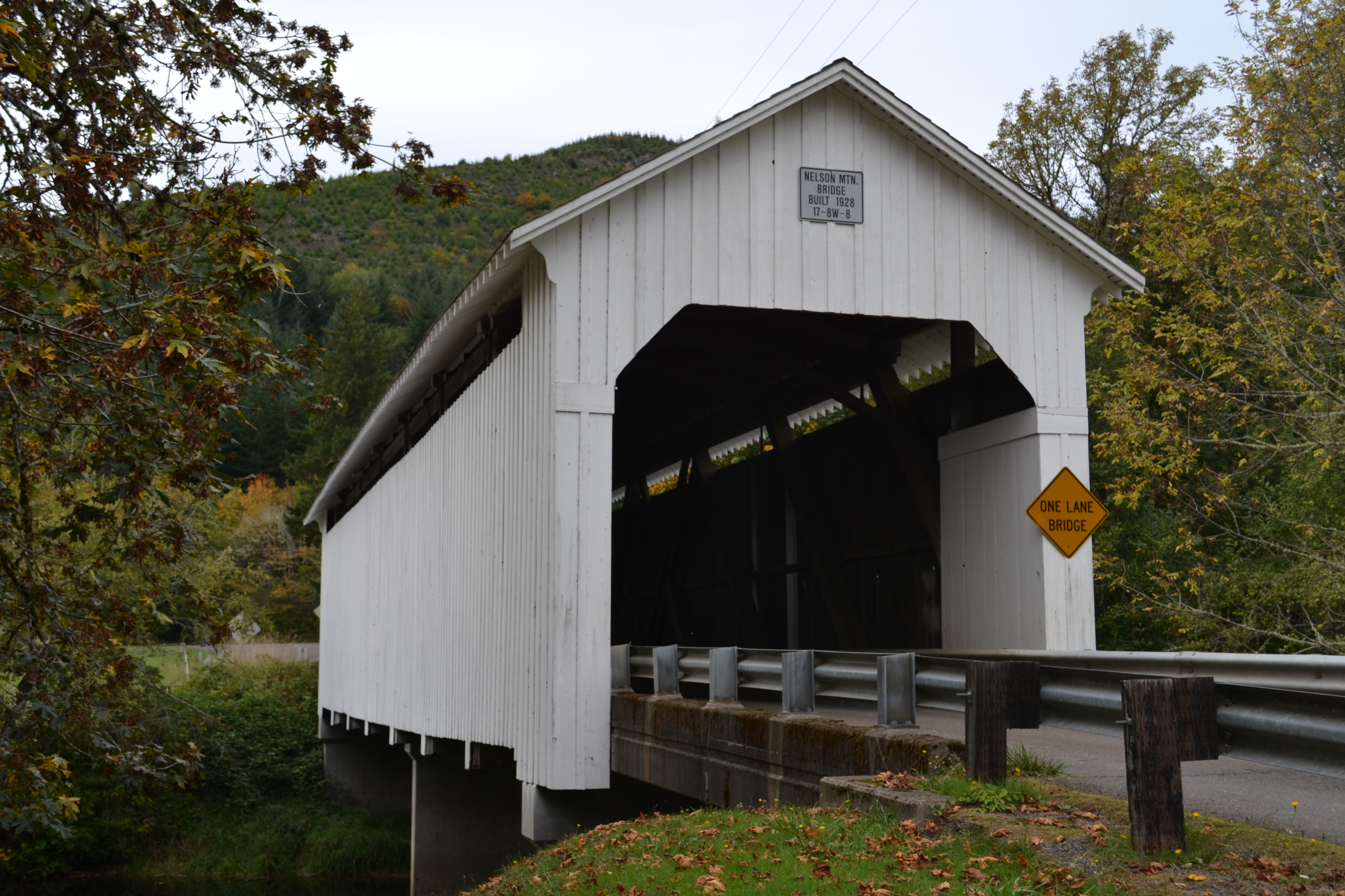 Lake Creek Bridge (Lane County, Oregon). Also called Nelson Mountain Bridge.